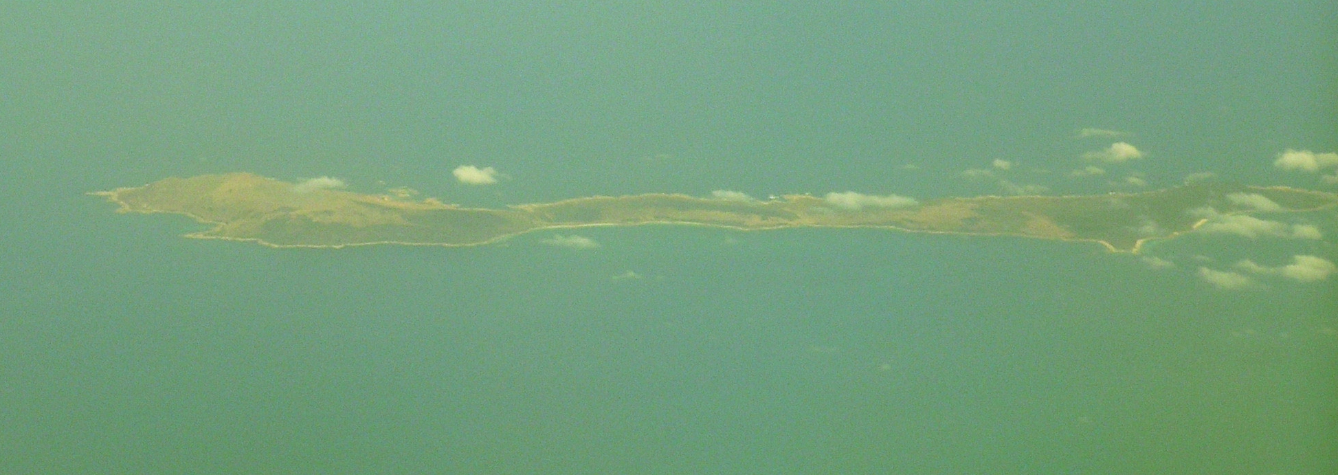 aerial photo of Prime Seal Island Tasmania Australia